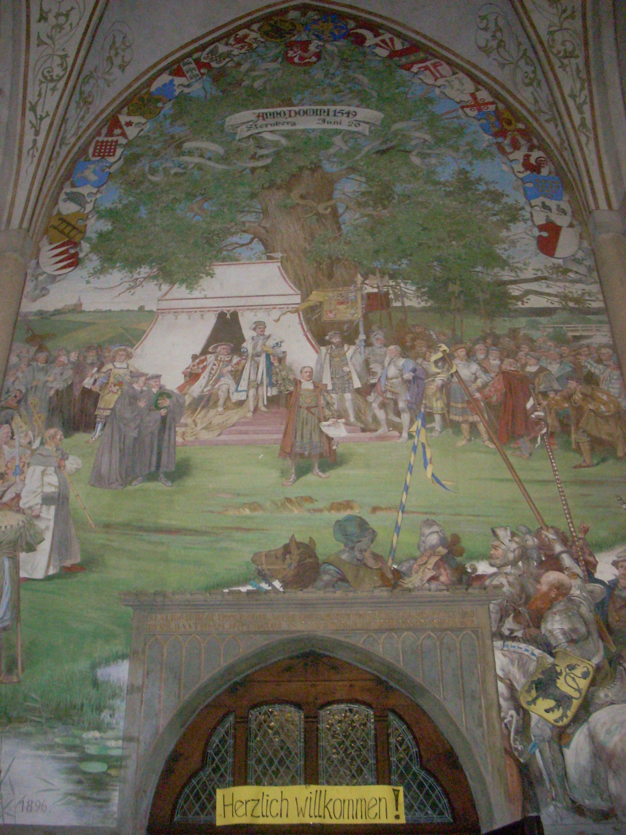 Fresco from the painter Fritz Greve in the church Sternberg in Mecklenburg